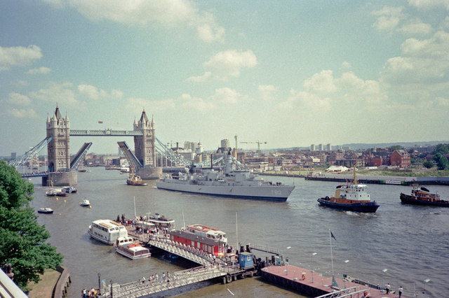 Pool of London - August 1990 Photo shows a Dutch warship entering the Pool prior to a visit by Queen Beatrix. On the far side of the Thames the site now occupied by City Hall is still a vacant lot.